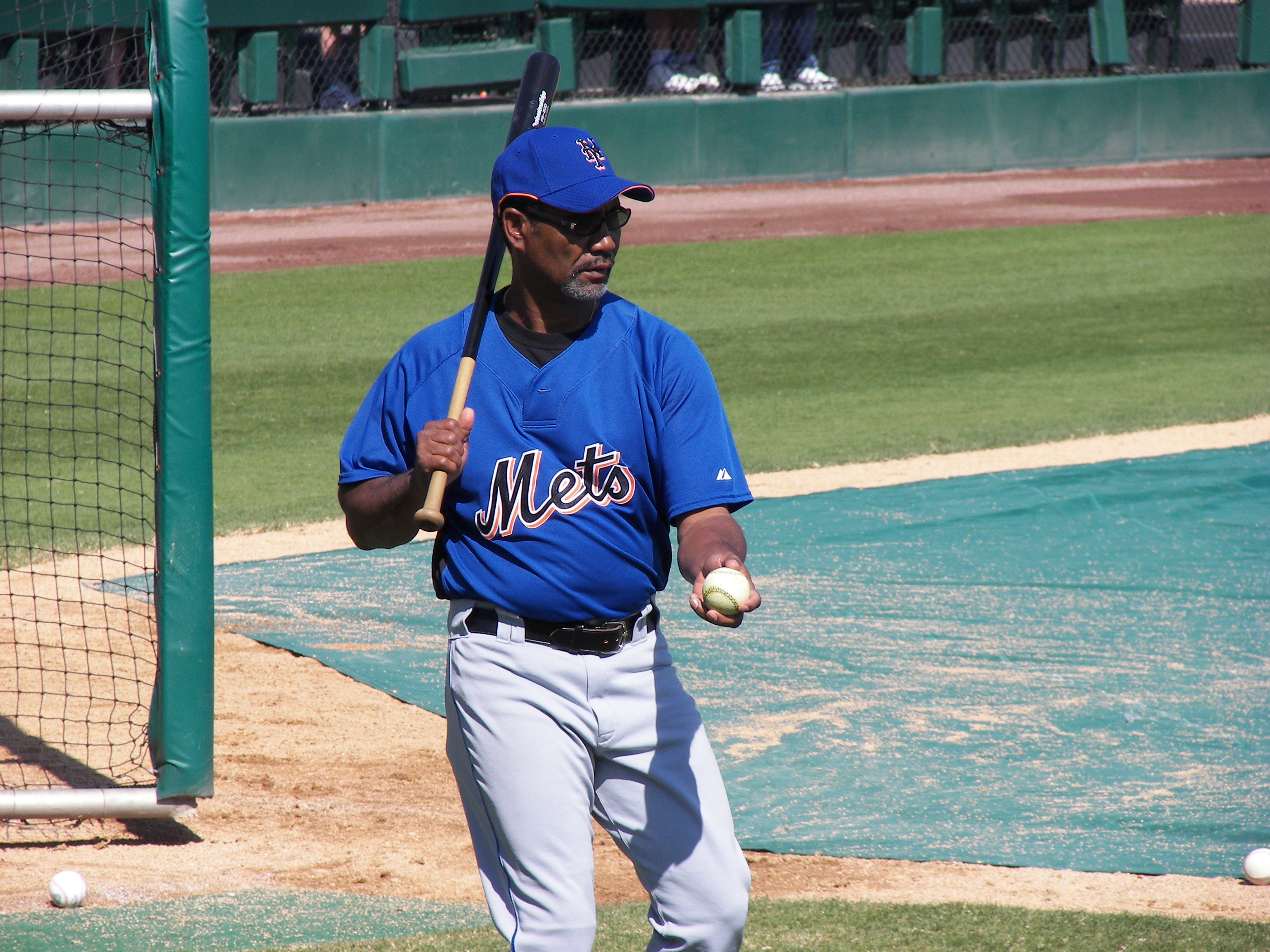 New York Mets coach Jerry Manuel before a Mets/Detroit Tigers spring training game at Joker Marchant Stadium in Lakeland, Florida.